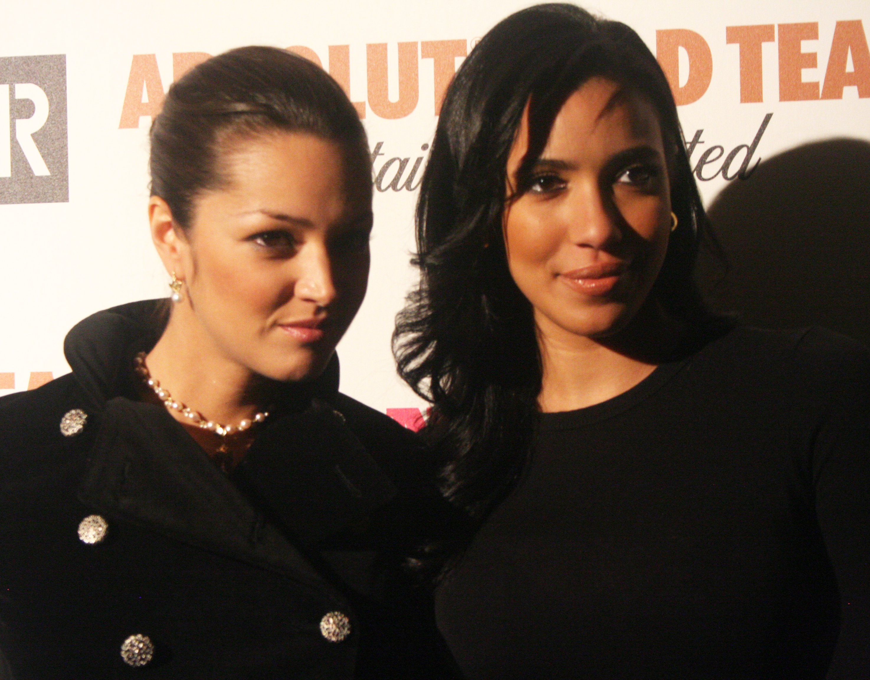 Paula Garcés and Julissa Bermudez at the Paper Magazine Beautiful People Absolut Wild Tea and Paper Party at Hudson, New York City in March 2011.